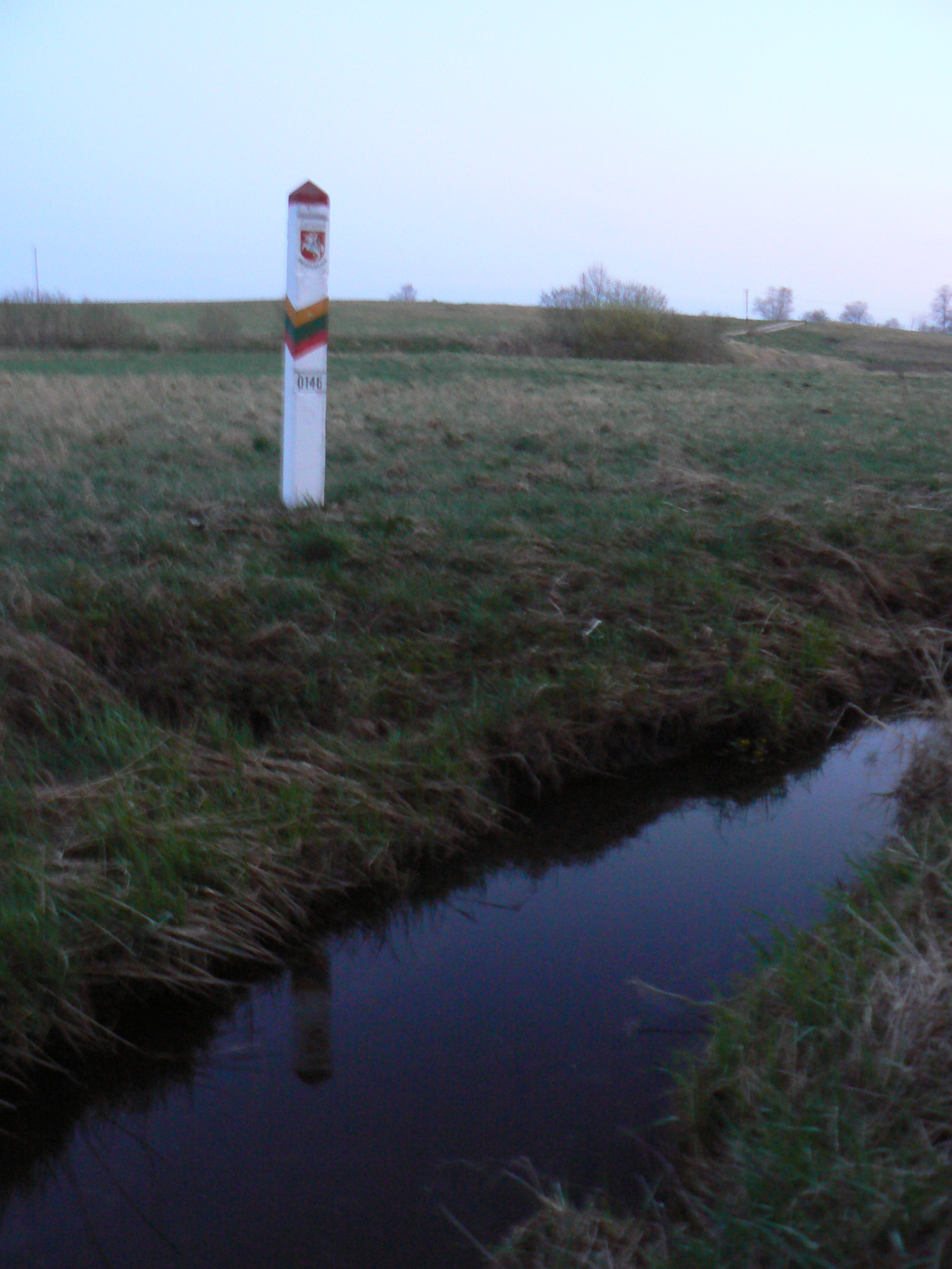 River Luknė near village Luknės, view from Latvia (border)